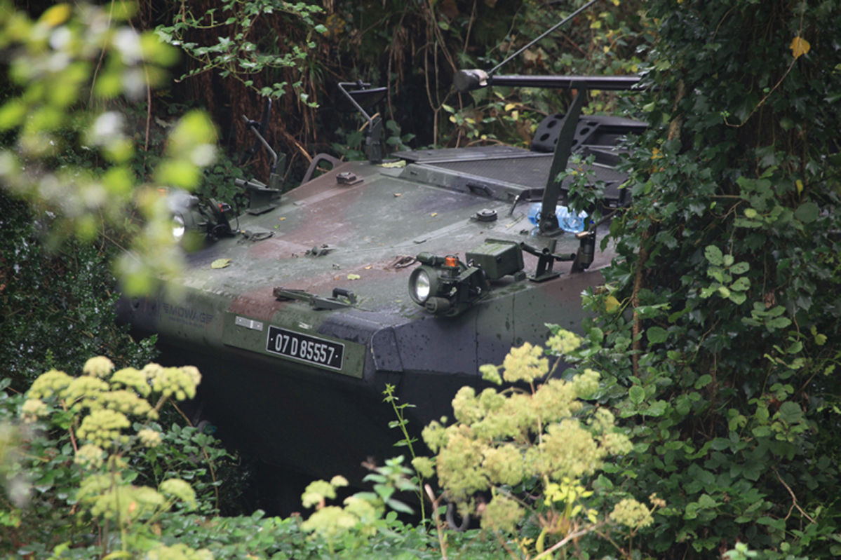 Nordic Battle Group ISTAR Training recently took place in Kilworth, including a visit from the Nordic Battle Group Force Cmdr and ISTAR Cmdr from Sweden